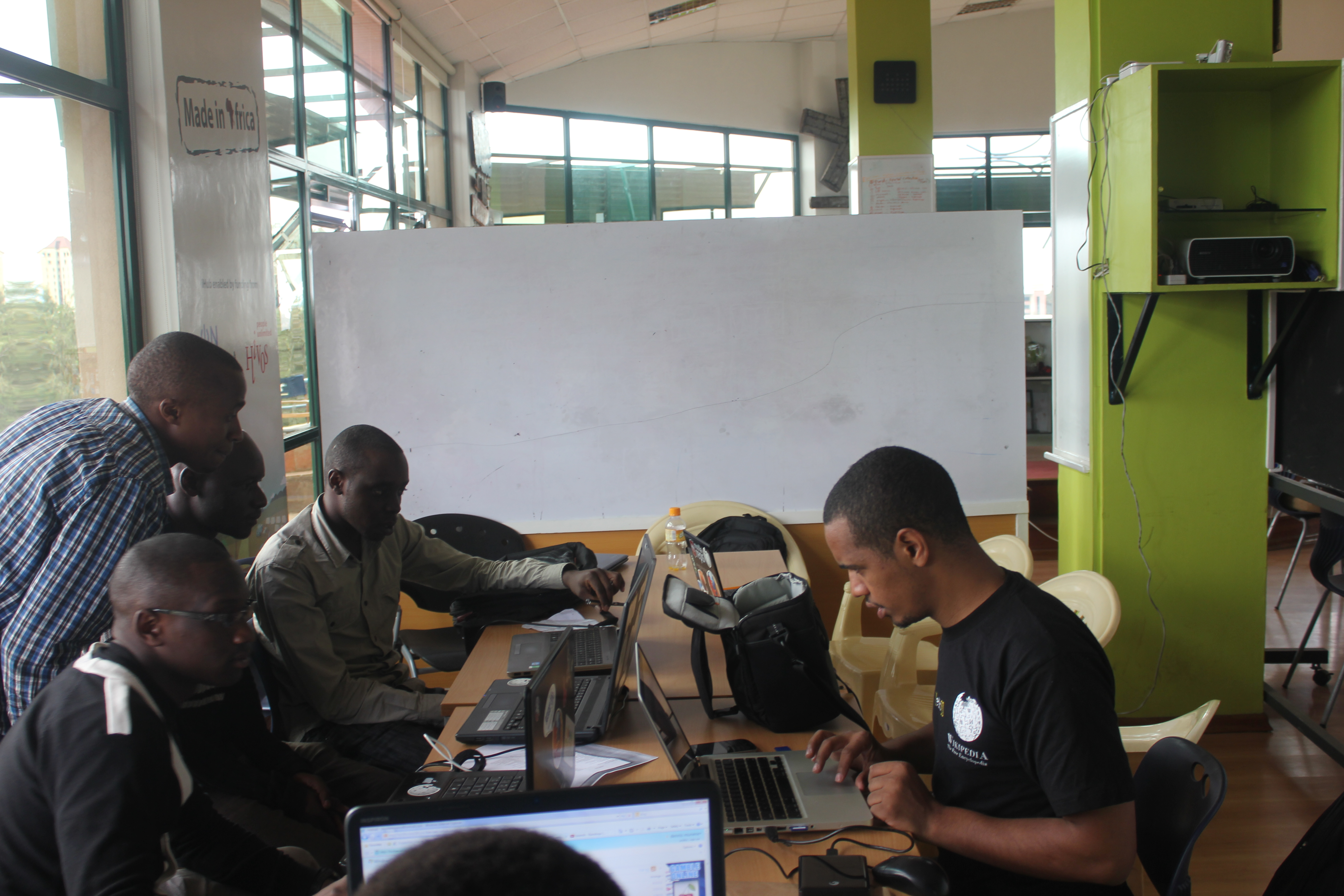 Wikimedia meetup in Kenya